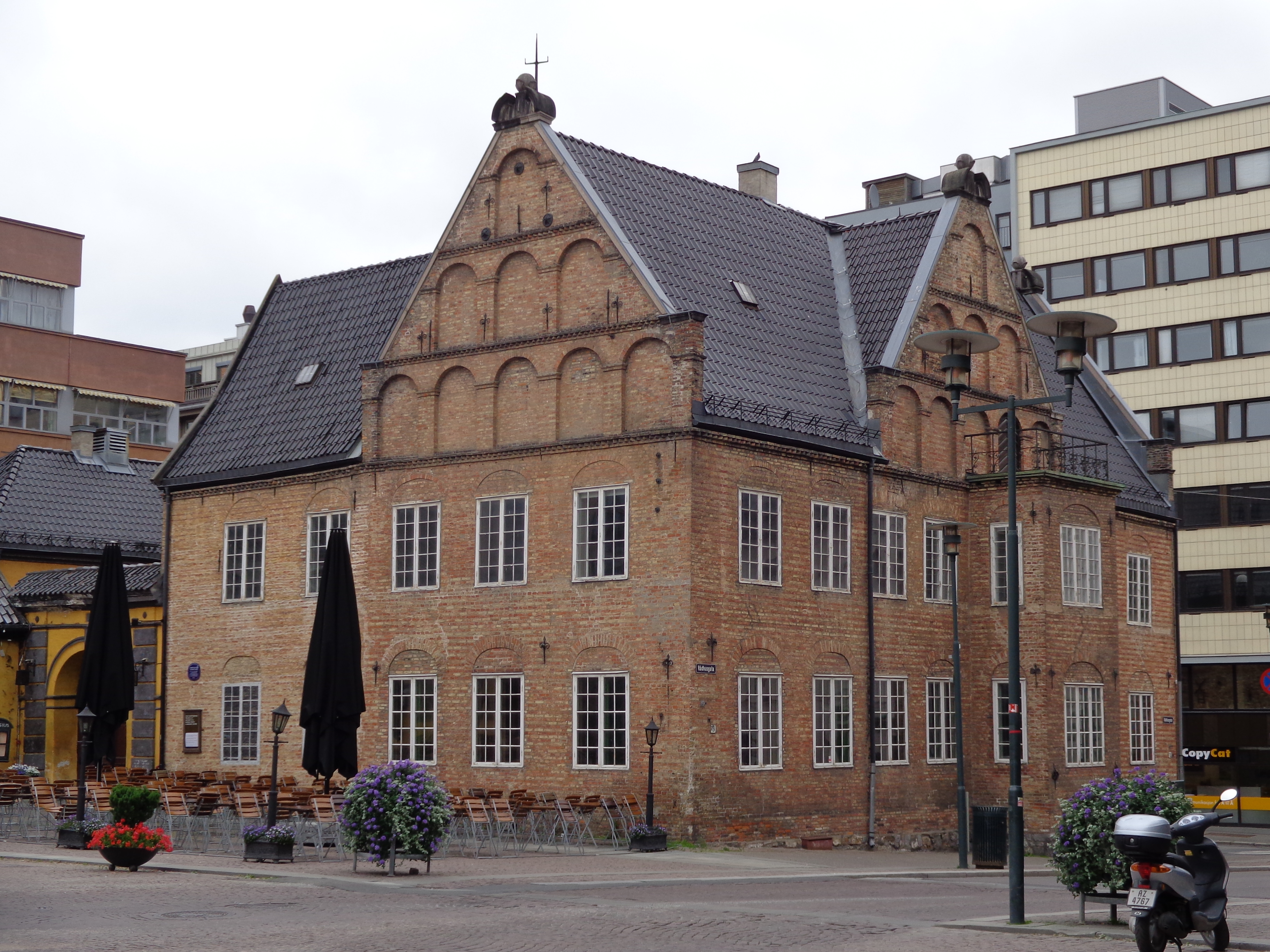 Rådmannsgården, Oslo